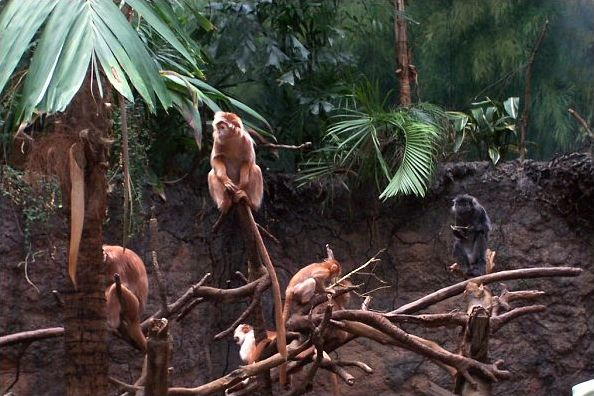 Javan Lutung, Trachypithecus auratus auratus